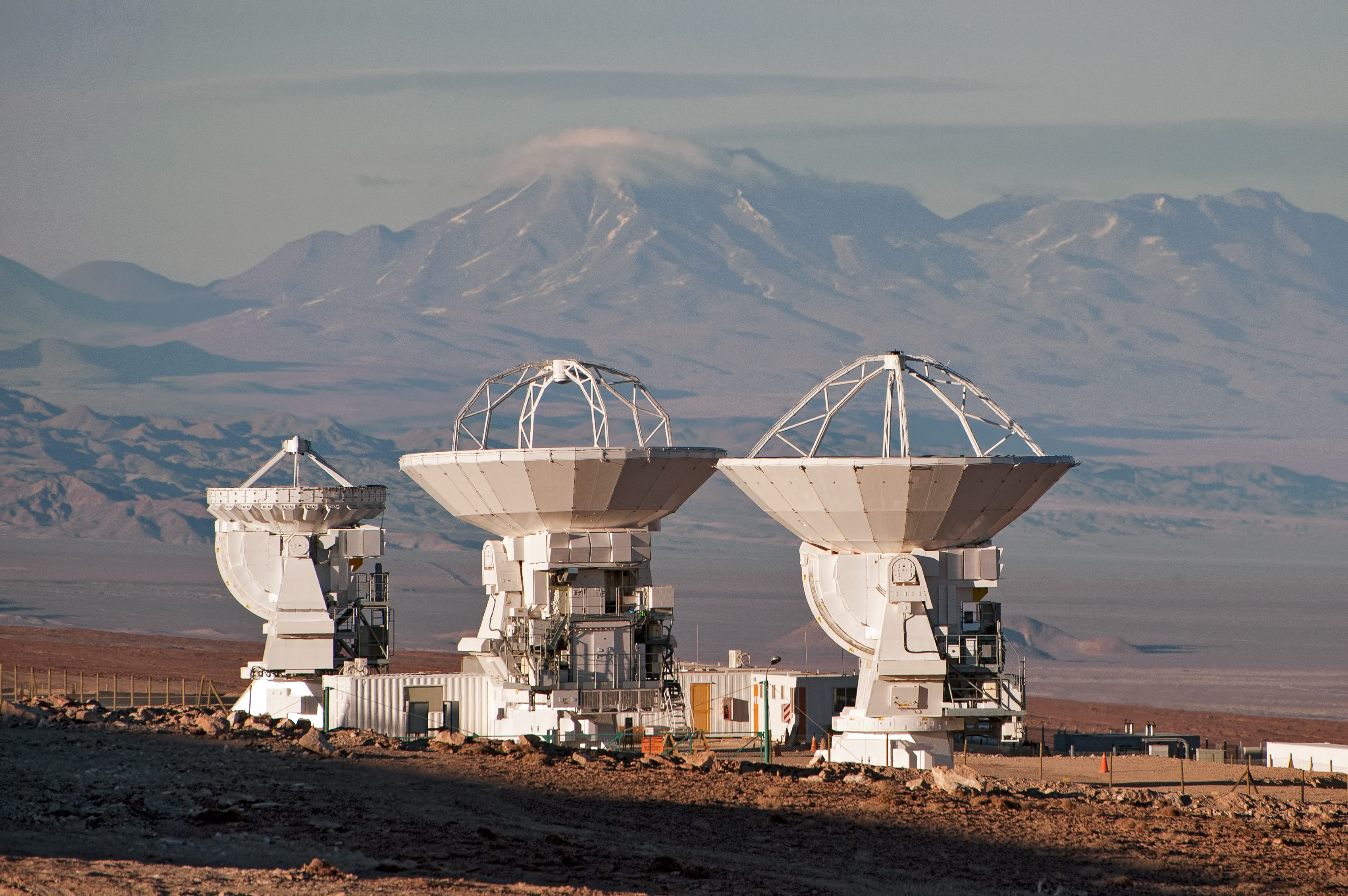 When completed, the antennas of the Atacama Large Millimeter/submillimeter Array (ALMA) will be spread across the Chajnantor plateau in the Chilean Andes over distances of up to 16 kilometres, but they will work in unison, to form what is known as an interferometer. In doing so, ALMA will be more powerful than the sum of its parts, acting like a single giant telescope as large as the whole collection of antennas. The 66 ALMA antennas are not all the same. A main array of fifty antennas with 12-metre dishes will be complemented by the Atacama Compact Array (ACA) of twelve smaller 7-metre dishes and four additional 12-metre dishes. The ACA dishes are being constructed by Mitsubishi Electric Corporation (MELCO). Three of them are shown in this photograph of the MELCO Site Erection Facility at the ALMA Operations Support Facility (OSF) site. The OSF is at an altitude of 2900 metres, from which the completed dishes are transported along a 28 km road to the 5000-metre altitude of the Chajnantor plateau. On the left is one of the 7-metre dishes, clearly smaller than its neighbours. The other two dishes both have a diameter of 12 metres, but subtle differences in their design can be seen. This is because the dish on the right was originally a prototype, used for testing during the early stages of the project, which has since been retrofitted with elements from the final design of the dish in the centre. Once ready, all these dishes will take their places on the high Chajnantor plateau. The ALMA project is a partnership of Europe, North America and East Asia in cooperation with the Republic of Chile. ESO is the European partner in ALMA. This photograph was taken by ESO Photo Ambassador José Francisco Salgado. Links ESO Photo Ambassadors webpage